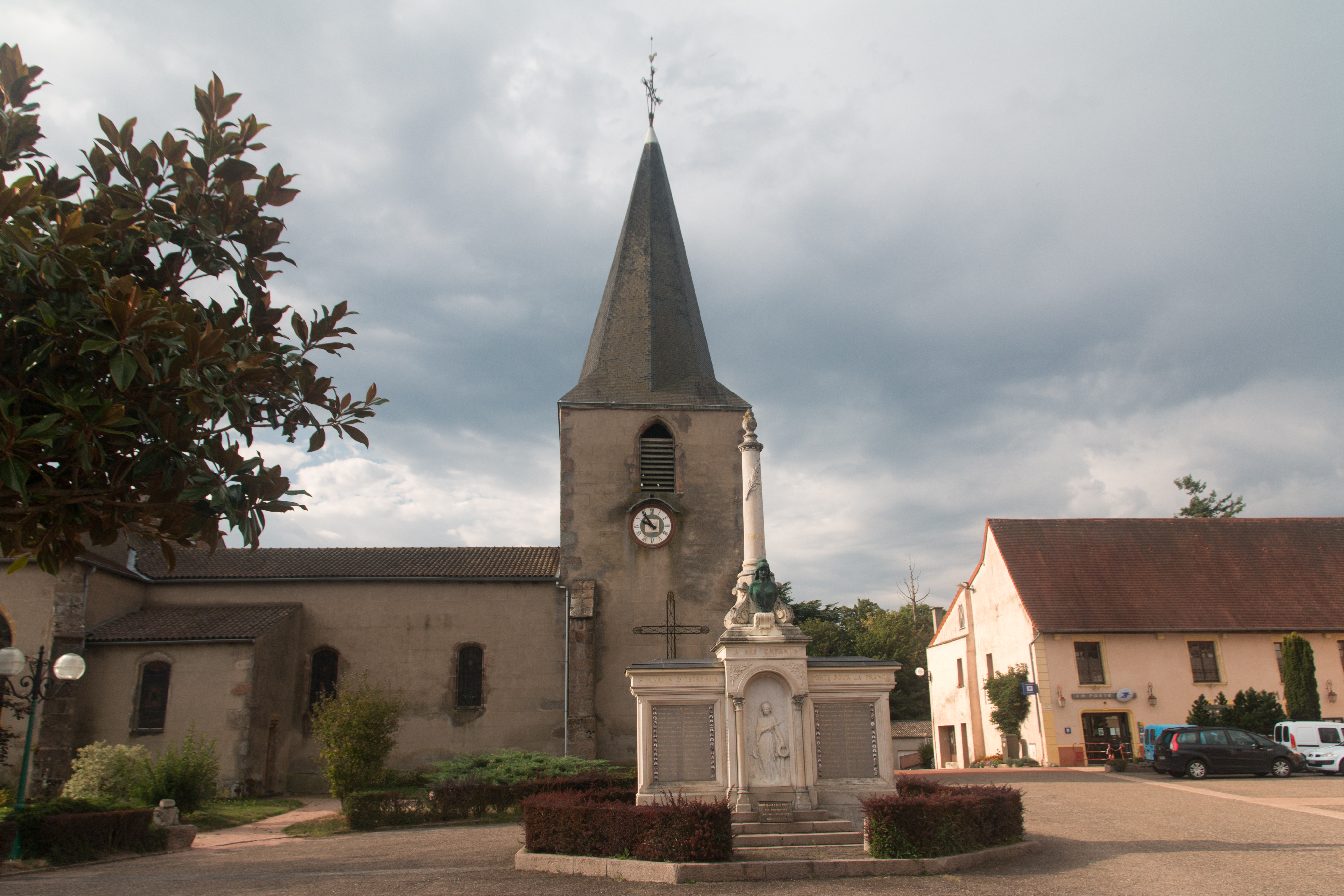 Well square at Saint Martin d'Estréaux